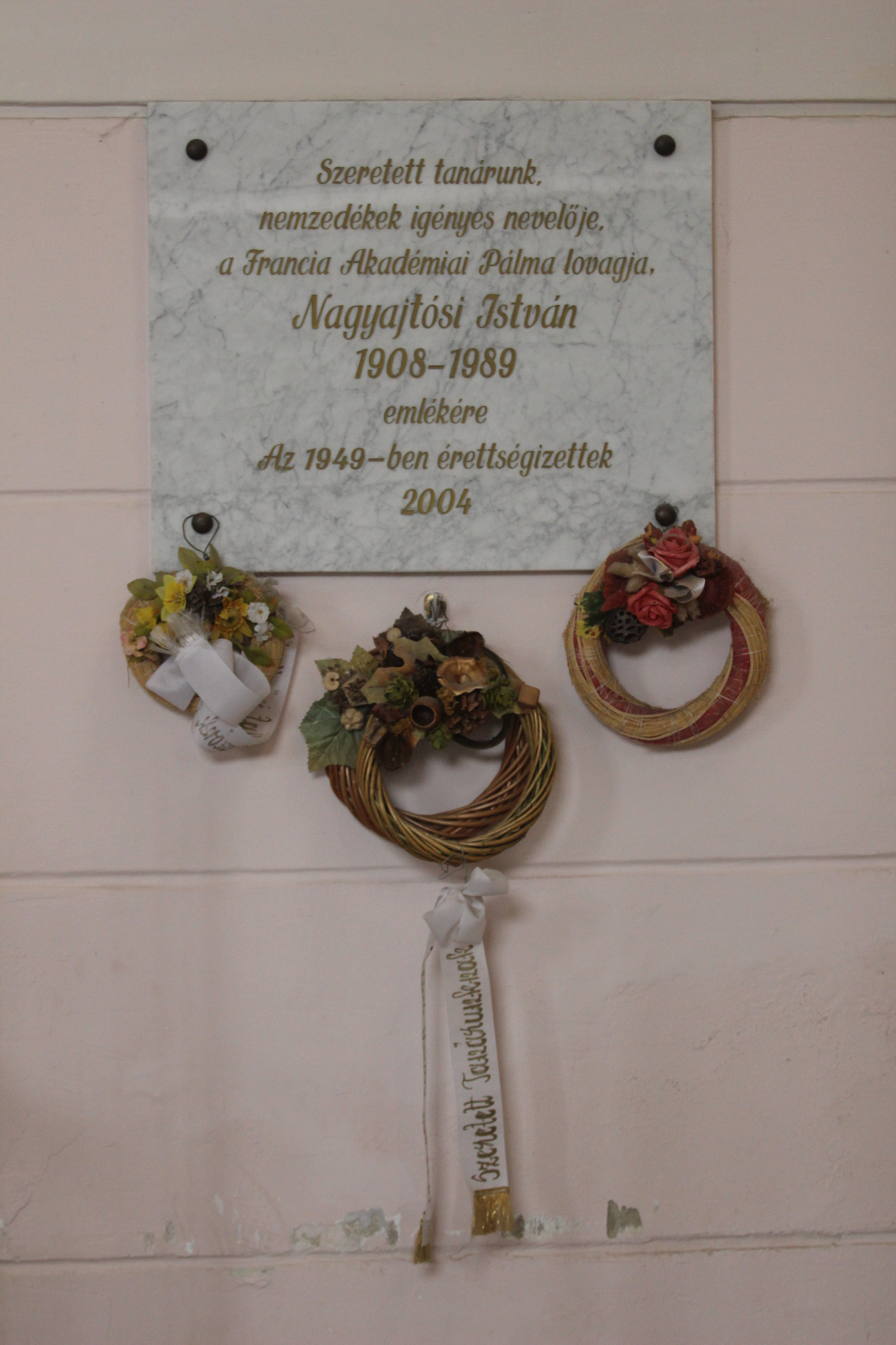 Plaque of Istvan Nagyajtosi (1908-1989) in the high school in Szentes